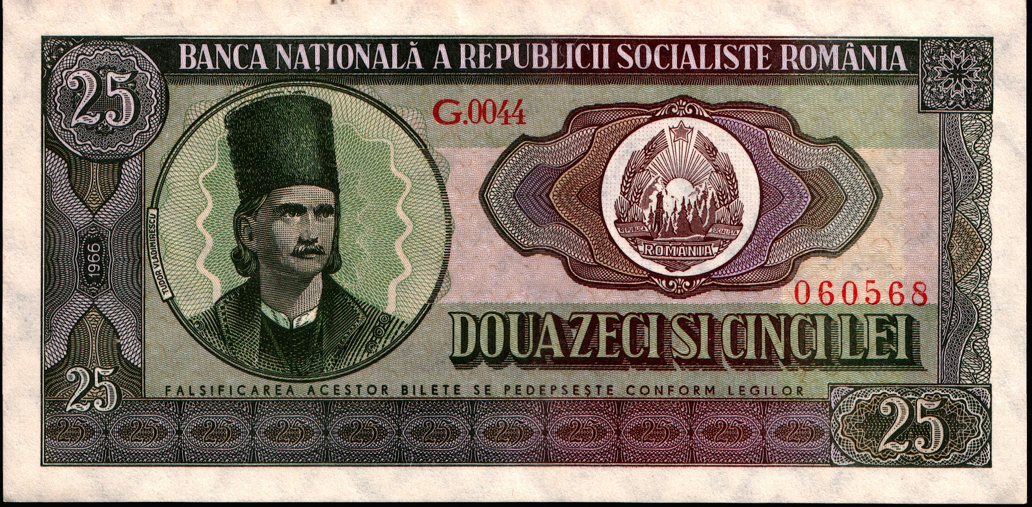 25 Romanian leu from 1966 - obverse